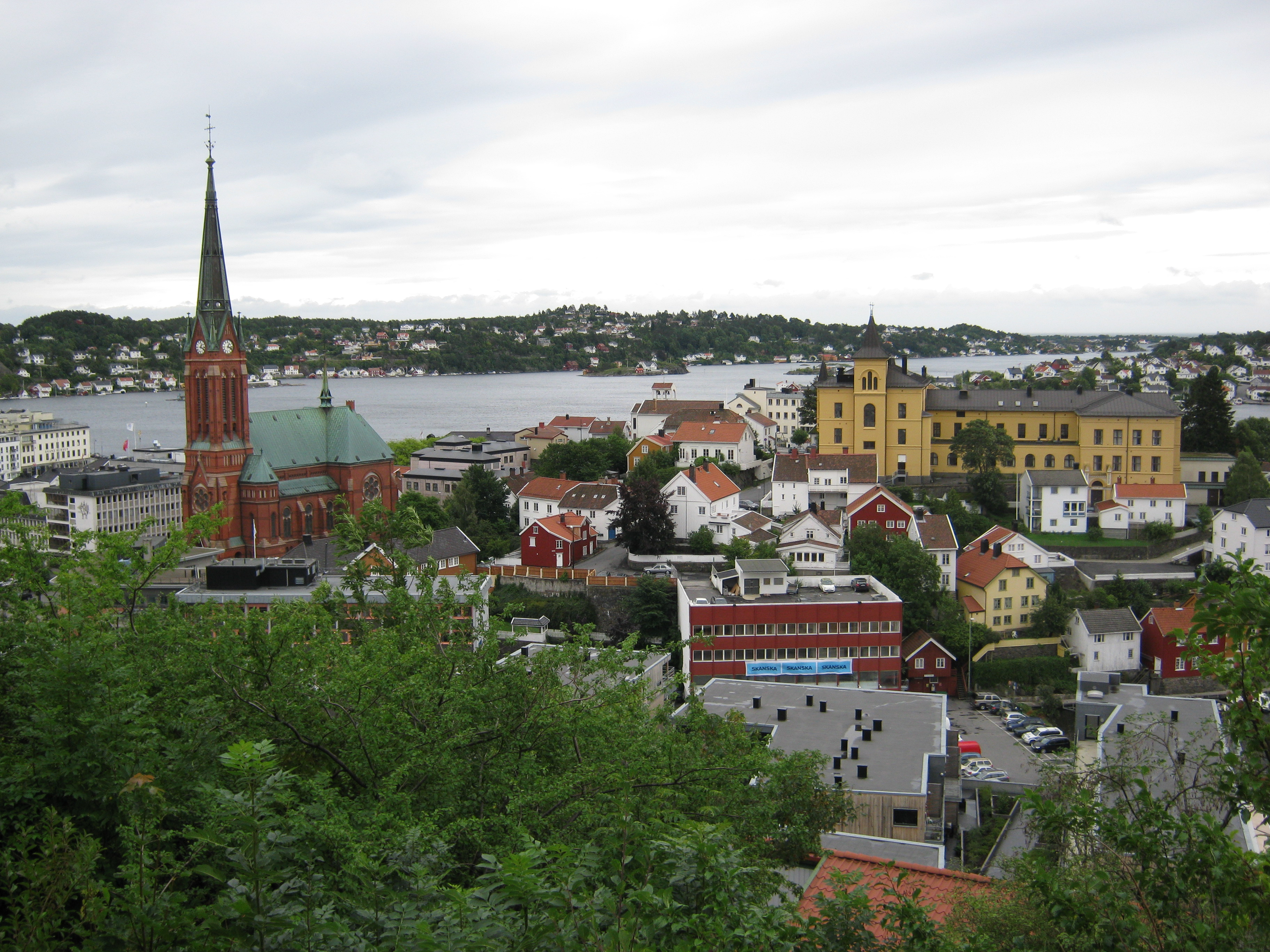 Arendal, a town south in Norway. Picture taken towards south-east. Church is the Arendal Trefoldighetskirke, yellow building is Arendal Videregående school (high-school) at Tyholmen.